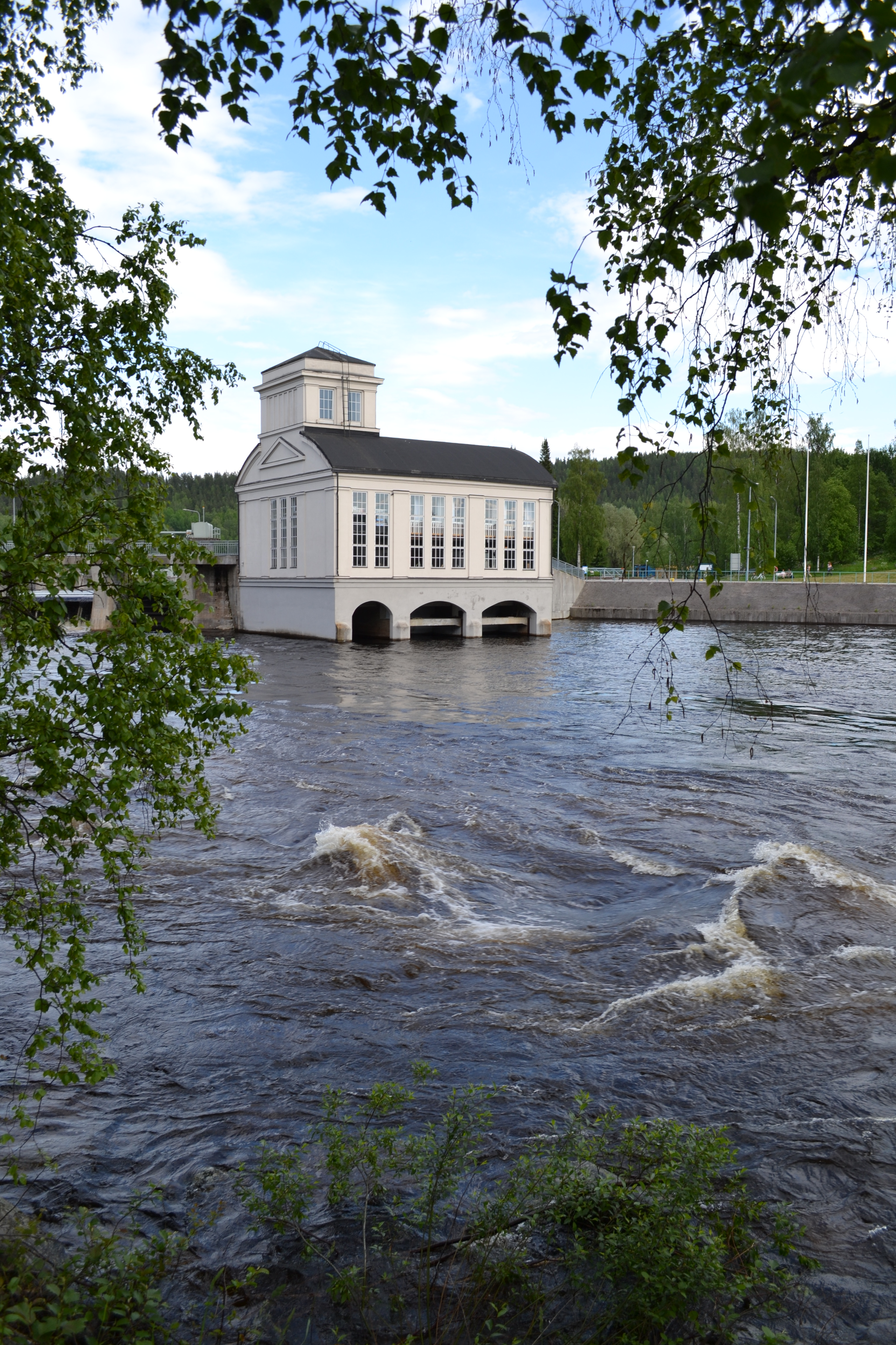 Vaajakoski old power plant in summer 2012